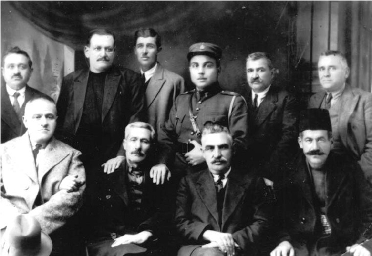 Stergios Sapundzis and others